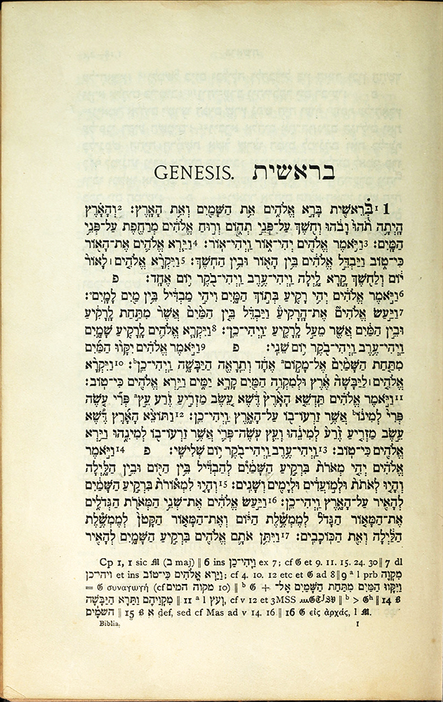 This is the first page of 'Biblia Hebraica edidit Rudolf Kittel' printed in 1909 by the Württembergische Bibelanstalt Stuttgart and J. C. Hinrichs.